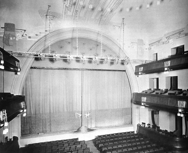 1903 photo of Moscow Art Theater interiors